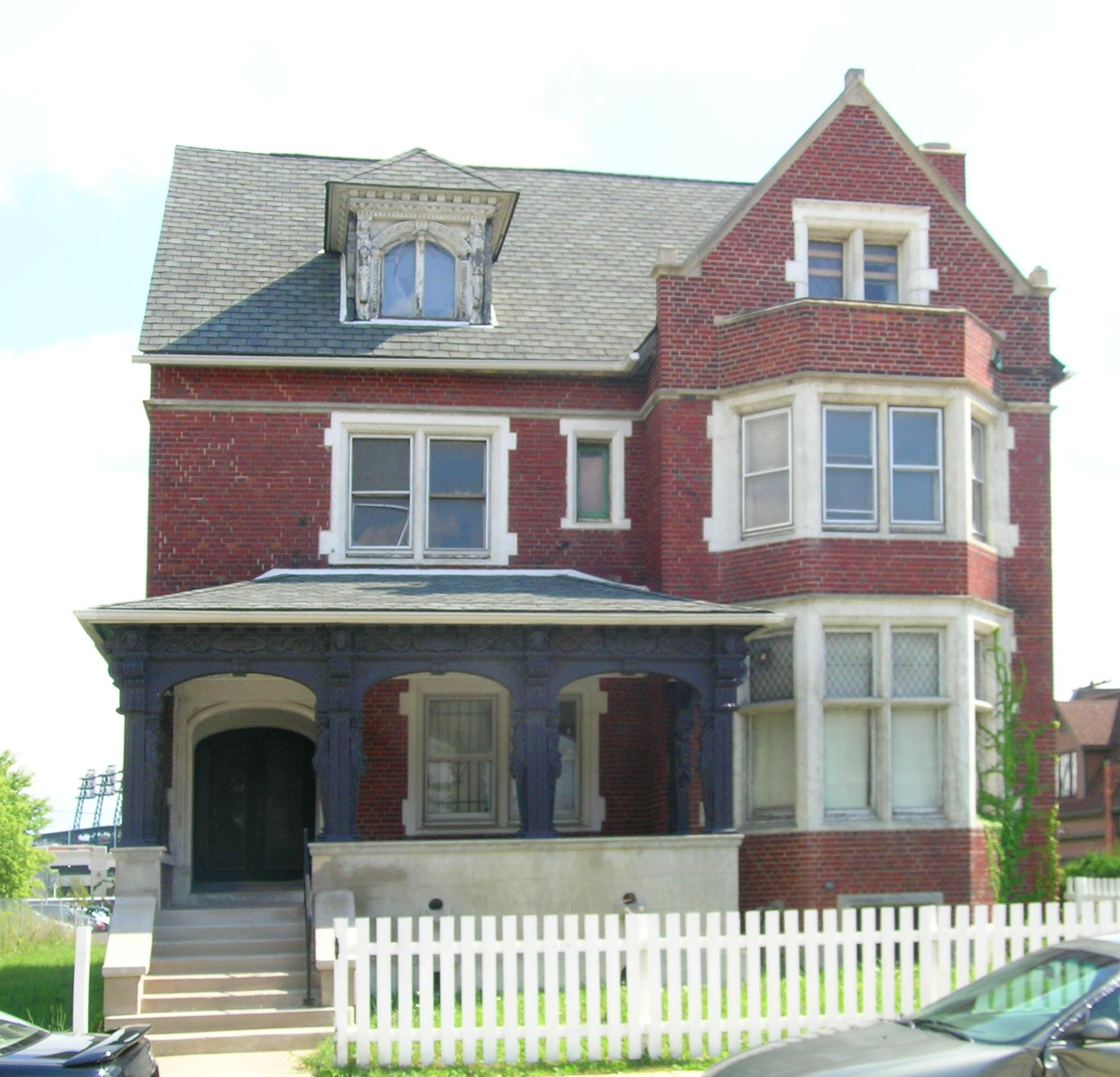 Bernard Ginsburg House — on Adelaide in Detroit, Michigan. Designed by Albert Kahn in 1898. A contributing property in the Brush Park Historic District, and on the National Register of Historic Places.